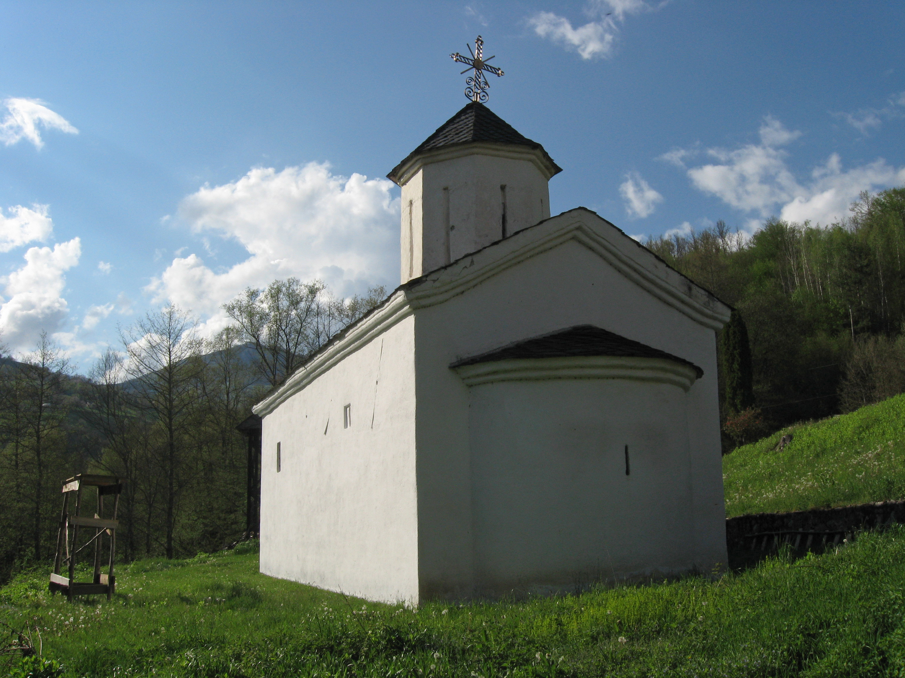 The Church of St. Nicholas in the Village of Brezova, near Ivanjica